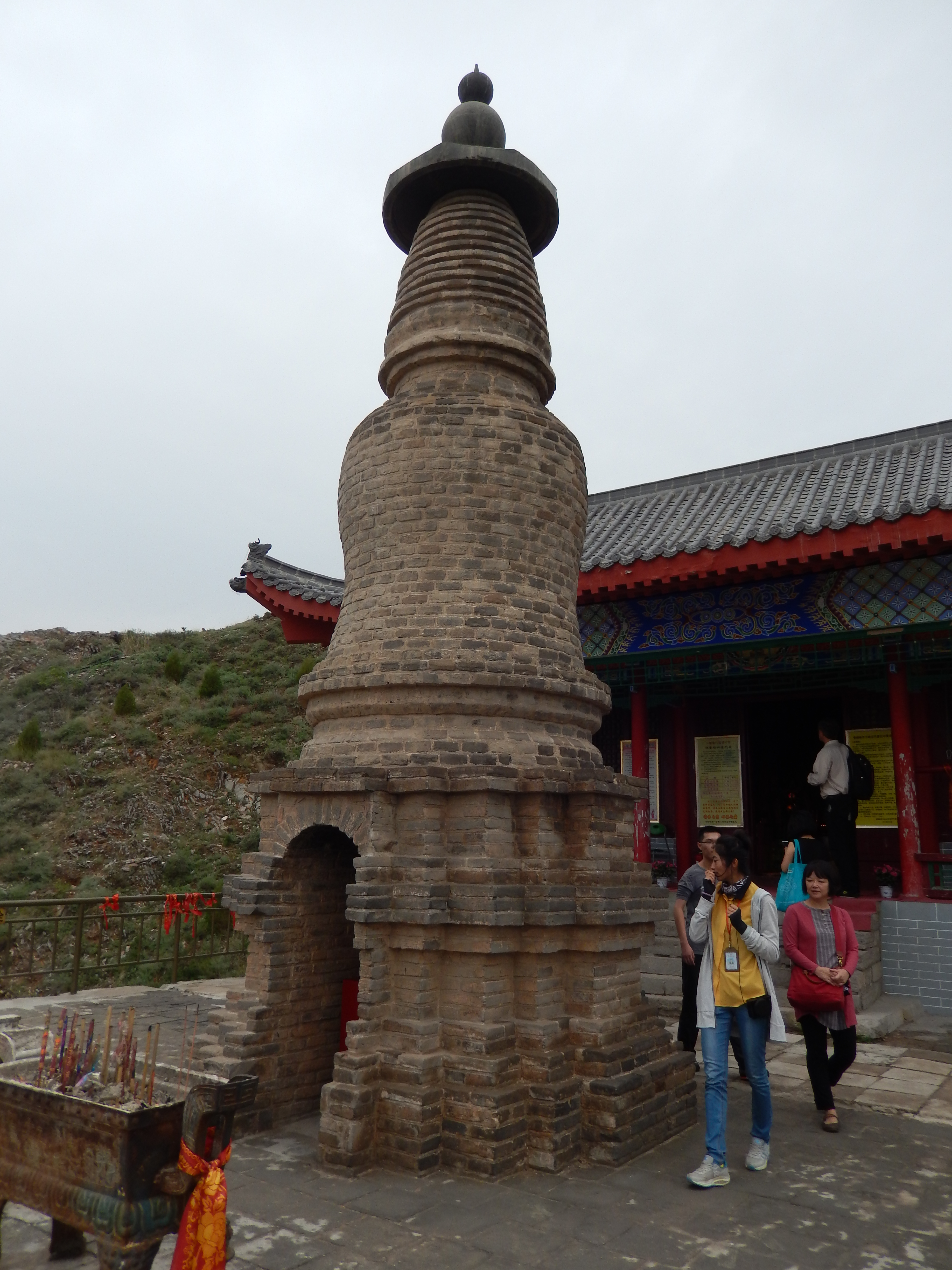 108 Buddhist stupas at Qingtongxia, Ningxia, China. Large stupa at top.